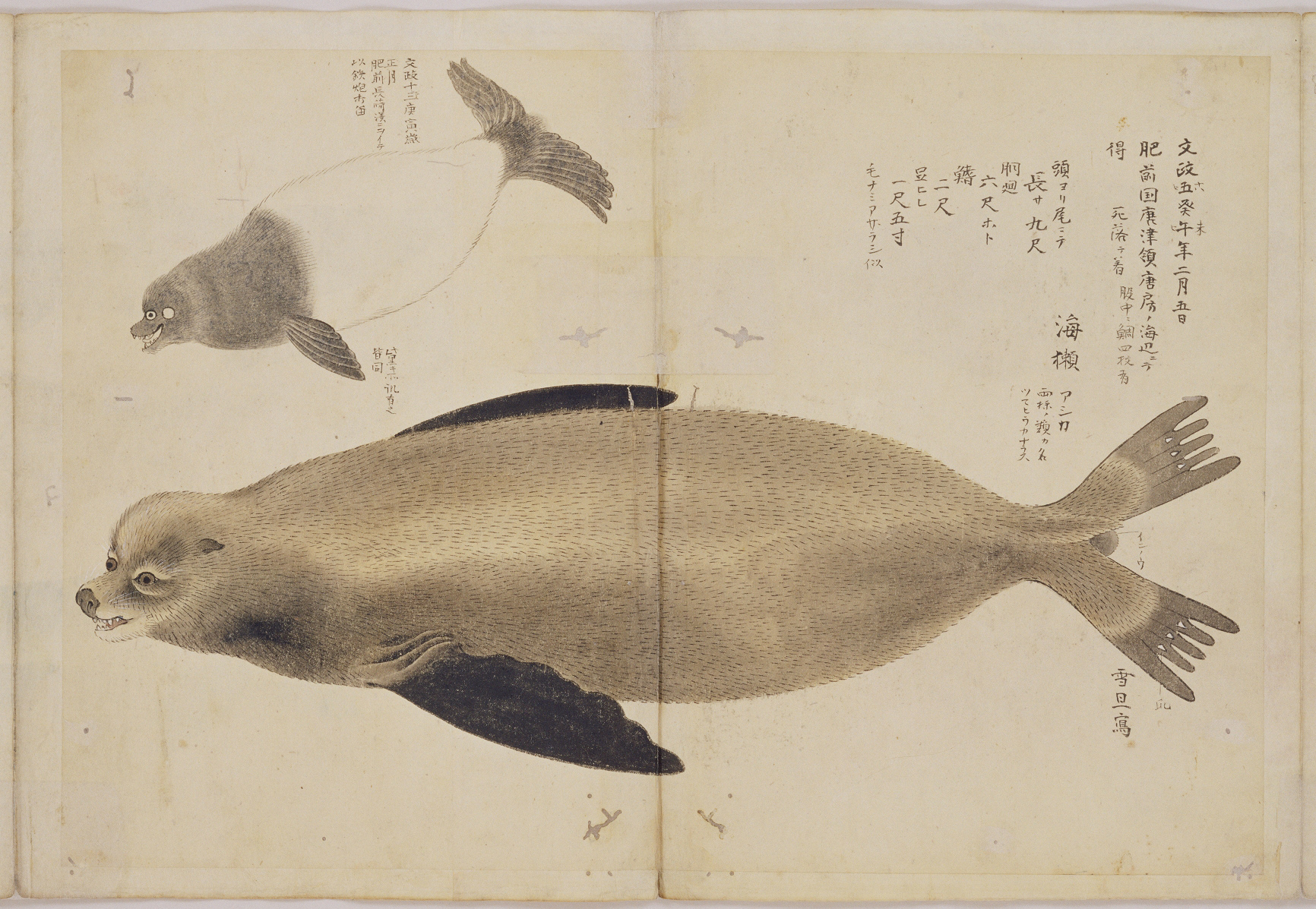 Illustration of a seal that drifted to the beach near Karatsu in the 6th year of Bunsei (1823) from Hasegawa Settan's Gyoruifu